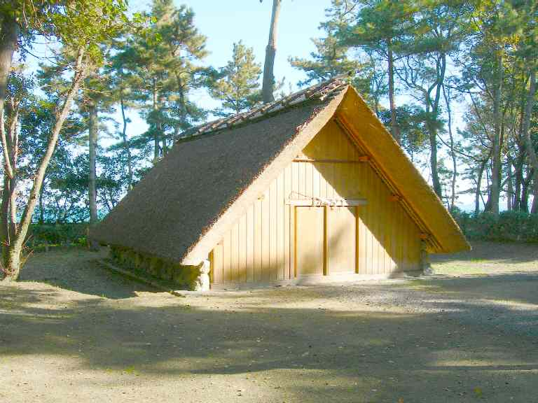 The Mishio-kumiiresho of Mishioden-jinja. Mishioden-jinja is the salt supplier for Jingu, Futami-cho, Ise city Mie prefecture, Japan. The Mishio-kumiiresho is a storehouse for brine.